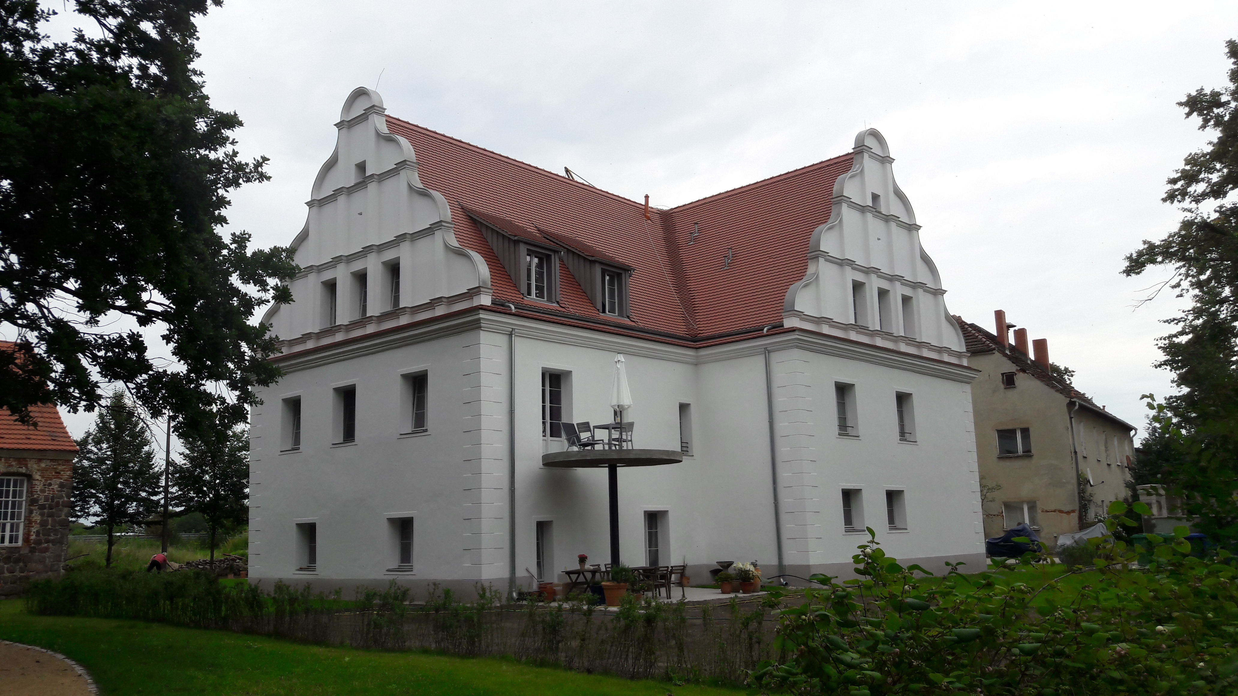 Kleinbeeren manorhouse